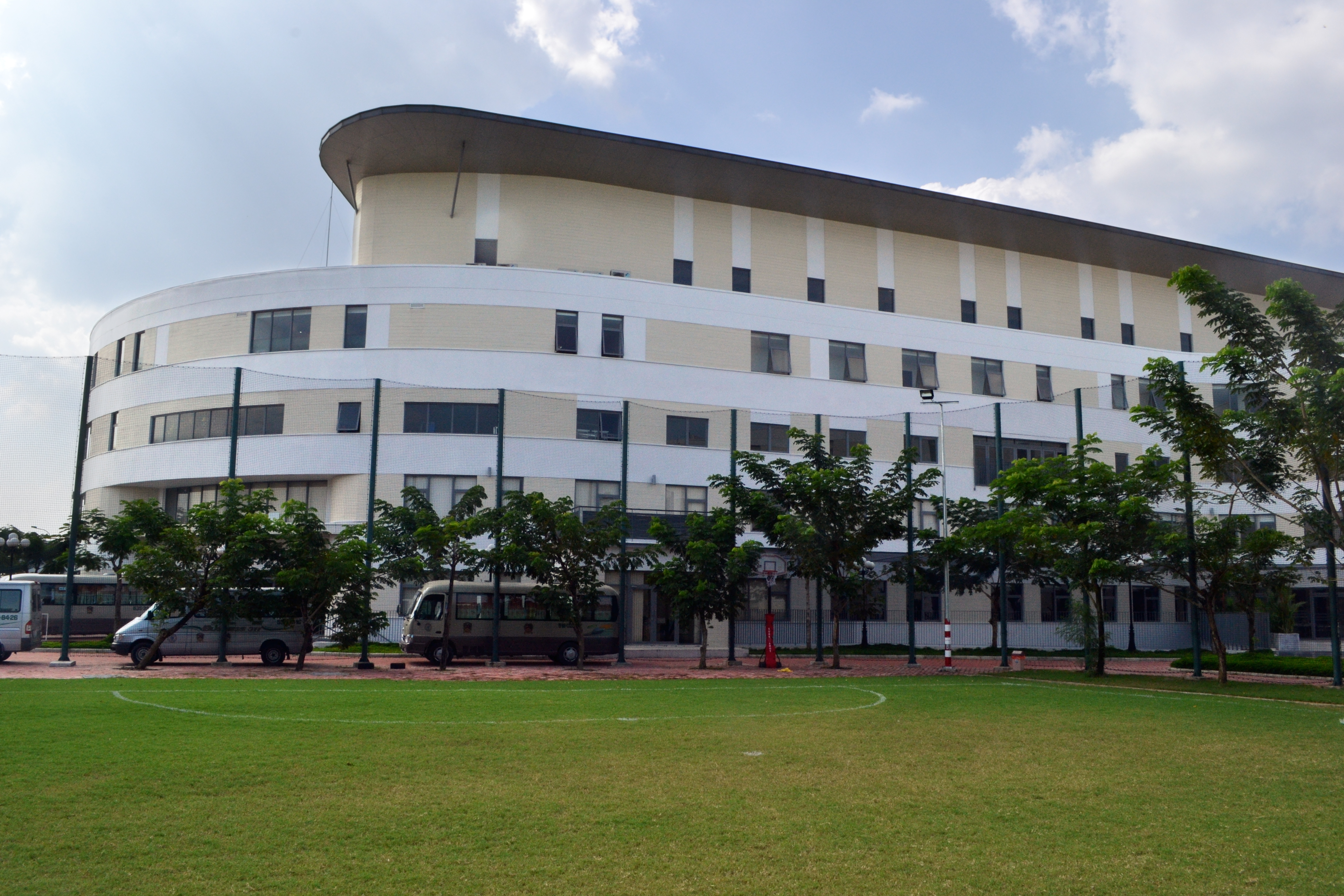 A photo of the British Vietnamese International School, Ho Chi Minh City, from the school's field.